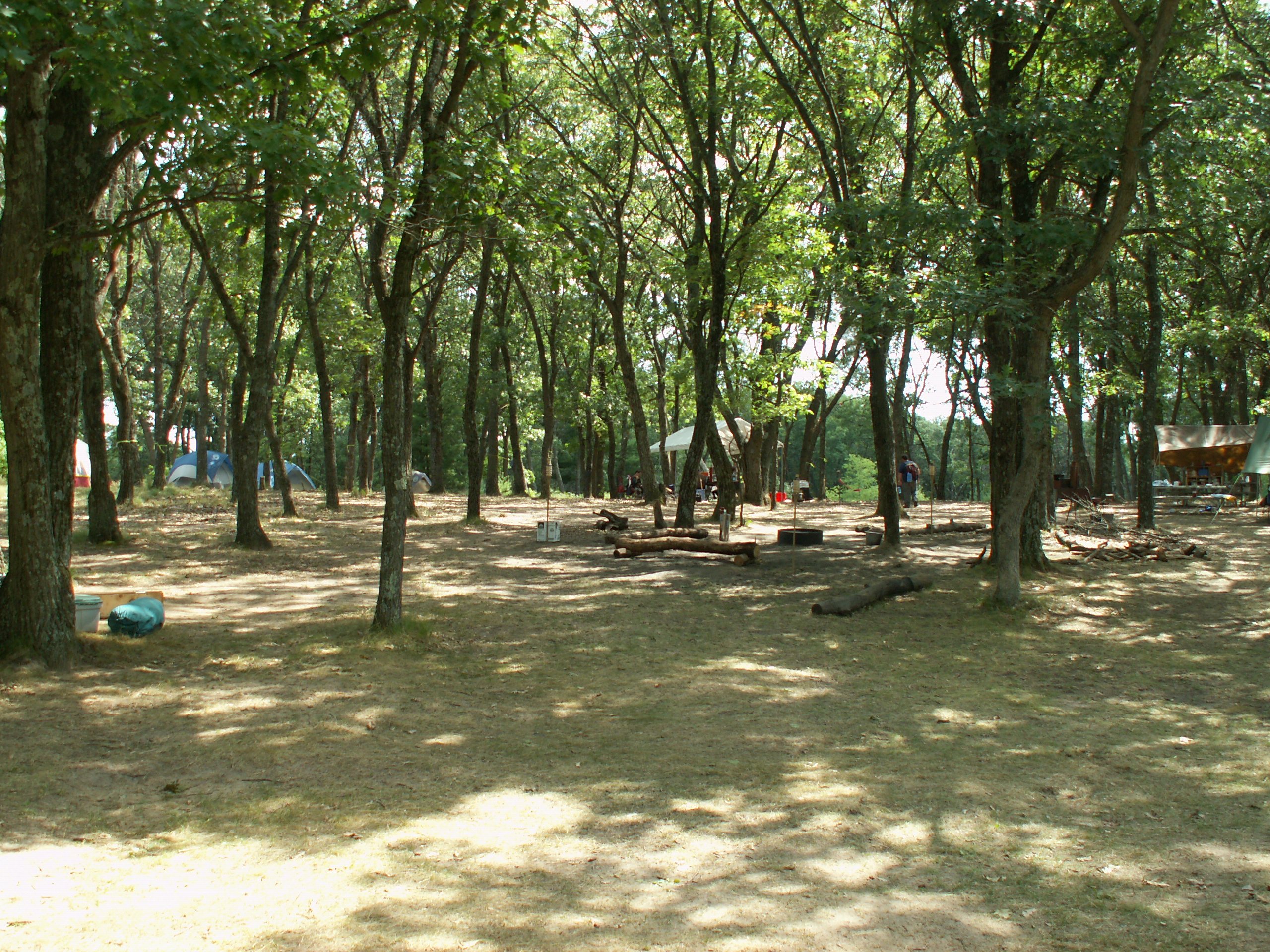 Chickamauga campsite at CFL